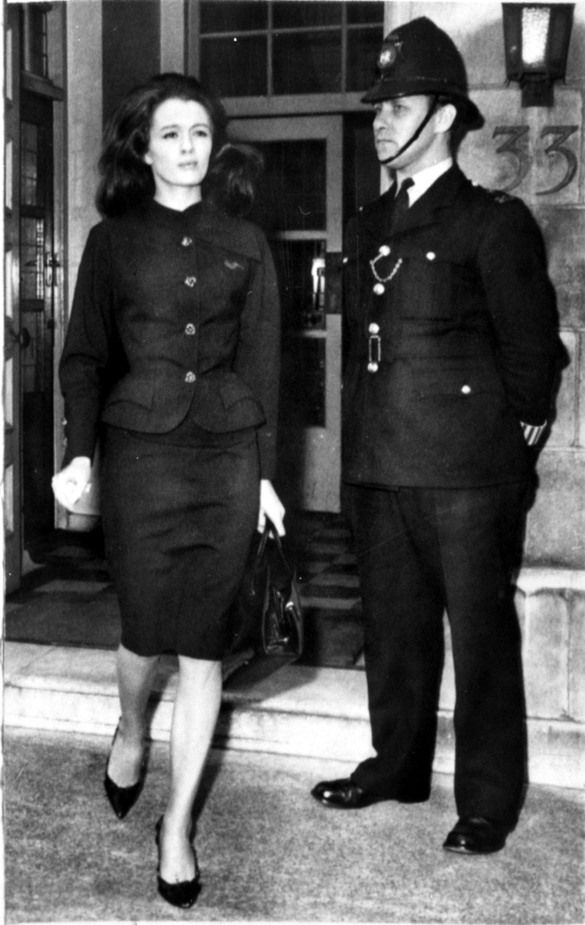 CHRISTINE KEELER goes to court today.